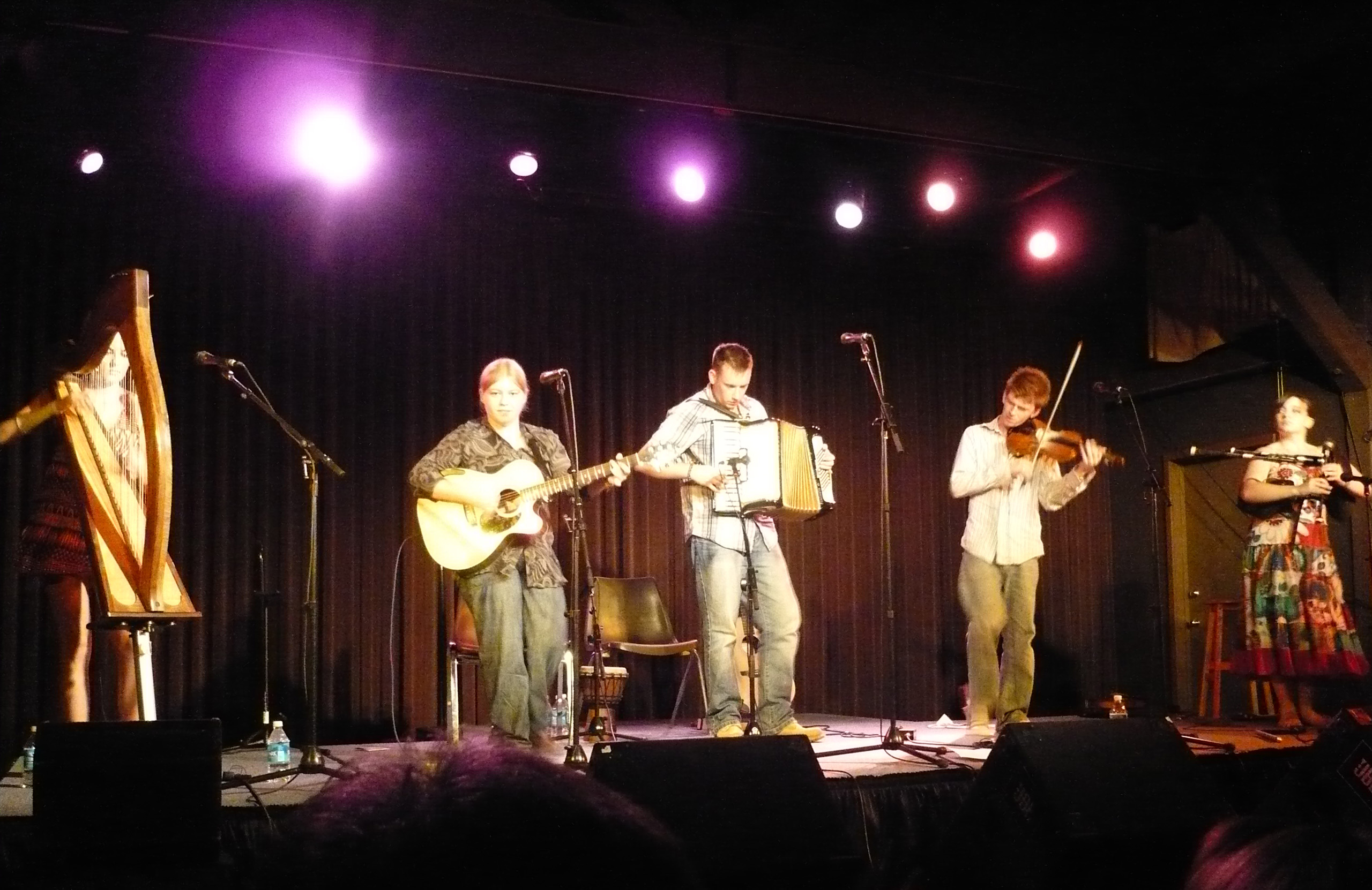 The Scottish band Bodega, performing on stage at the Happy Days Center, Cuyahoga Valley National Park, just east of Peninsula, Ohio, United States. From left to right: June Naylor, clàrsach Tia Files, steel-string acoustic guitar Norrie MacIver, accordion Ross Couper, fiddle Gillian Chalmers, border pipes